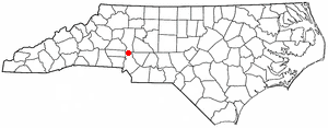 Category:North Carolina Dot Maps